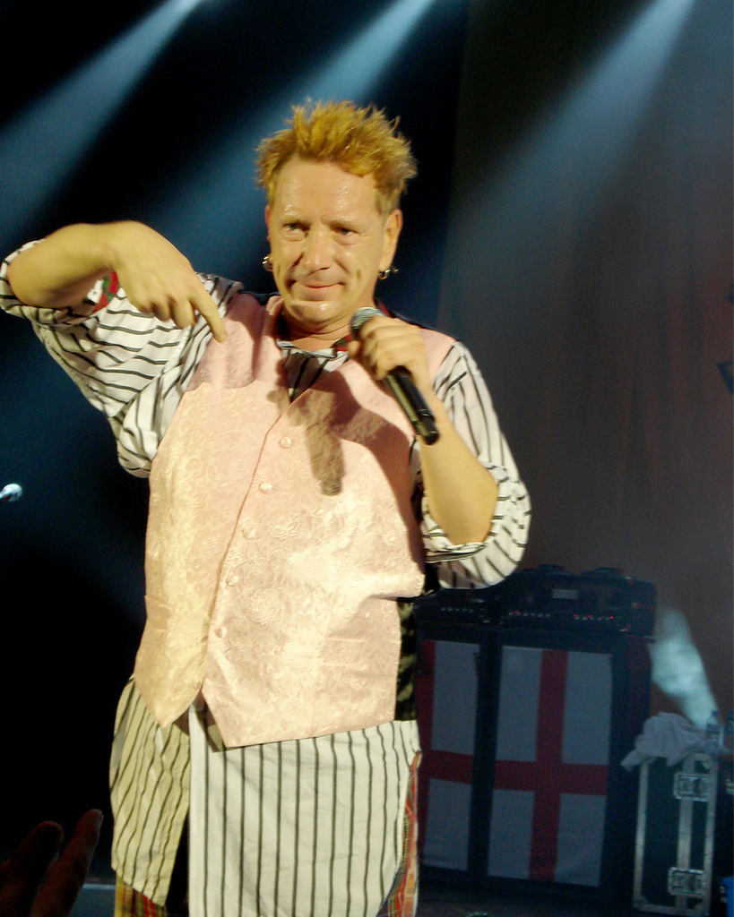 John Lydon (Johnny Rotten) of the Sex Pistols at the Hammersmith Odean in London, September 2, 2008.